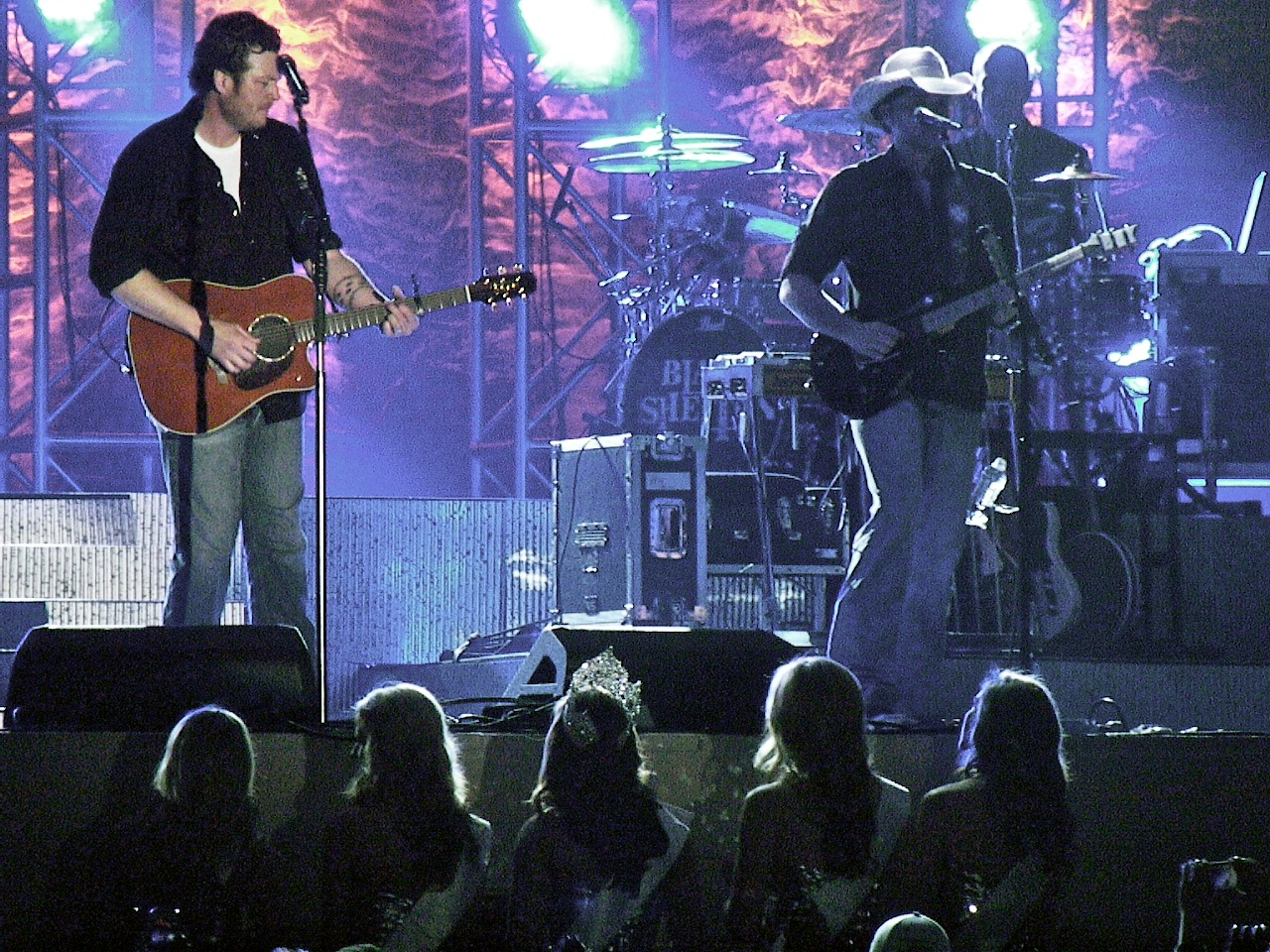 Blake Shelton performs in Plant City, FL for the 2013 Florida Strawberry Festival Queen, Kelsey Fry (wearing crown) and her Court: Ericka Lott, Madison Astin, Maddy Keene and Jamee Townsend.